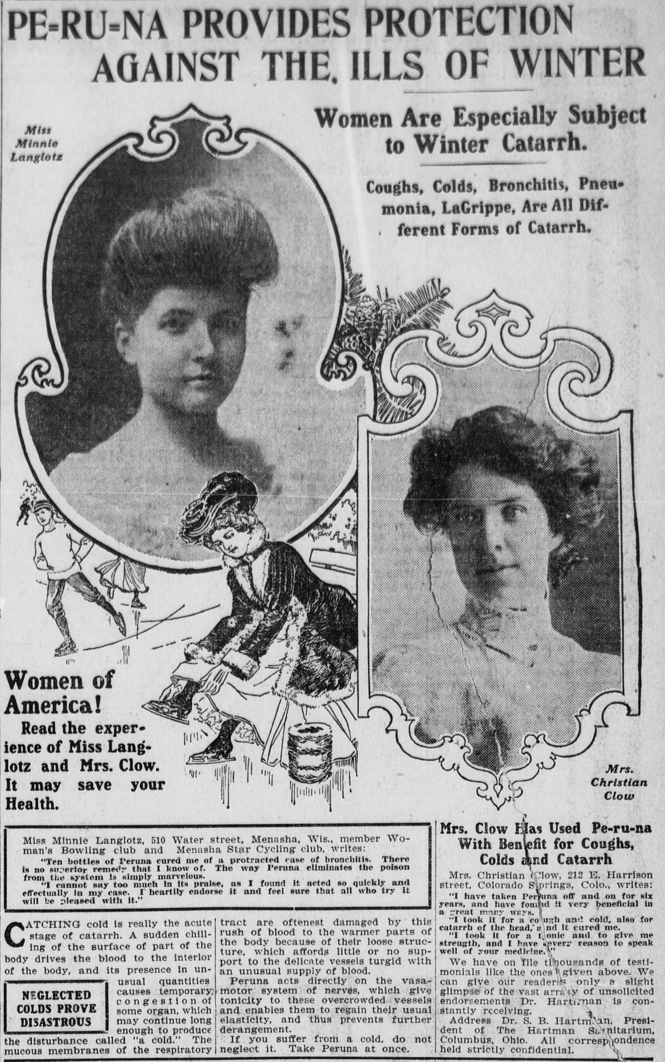 in 1905, "PERUNA" was a patent medicine advertised as a remedy for "catarrh". The women shown as endorsing PERUNA may not have existed.